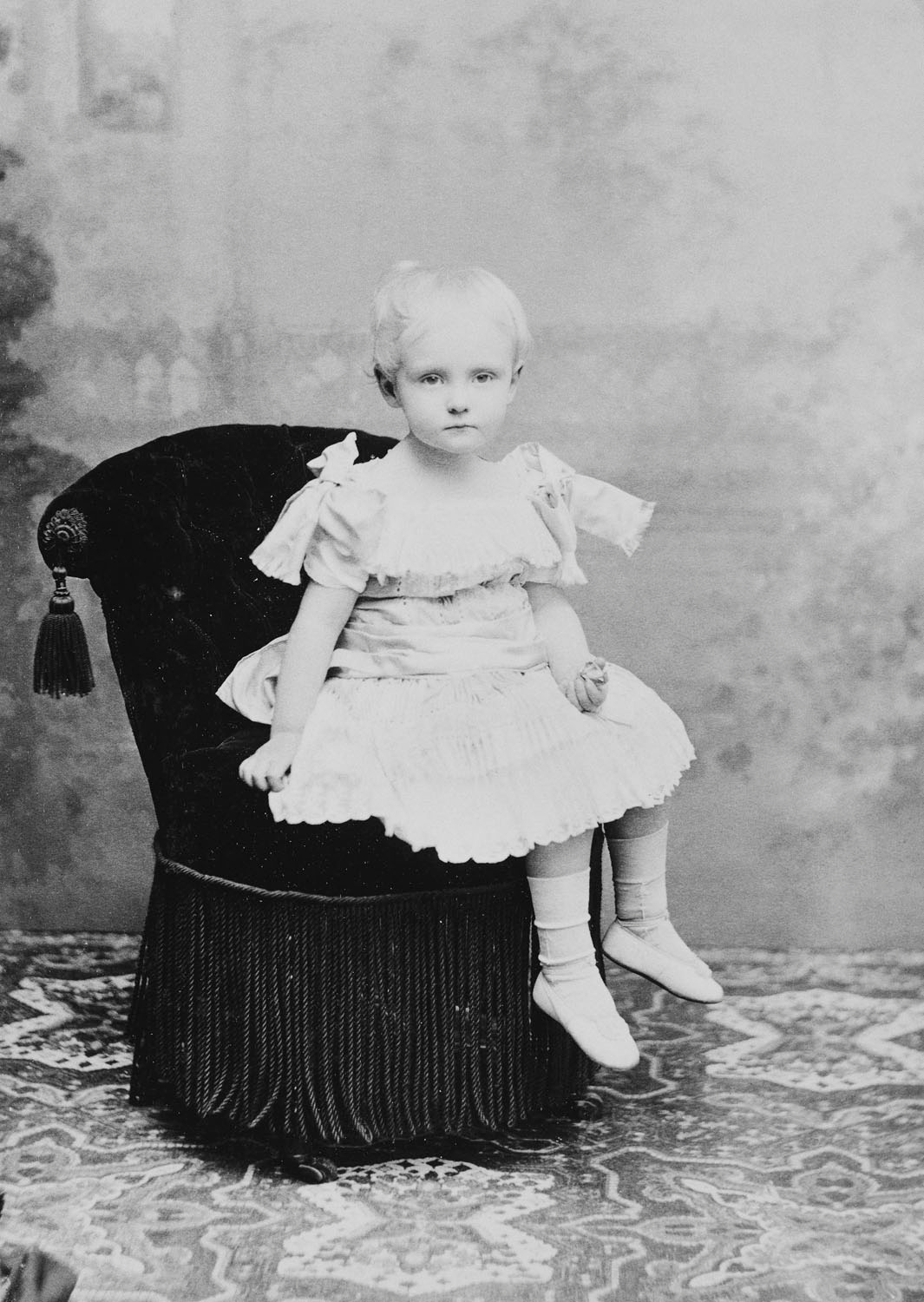 Louis Philippe, Crown Prince of Portugal, 1890